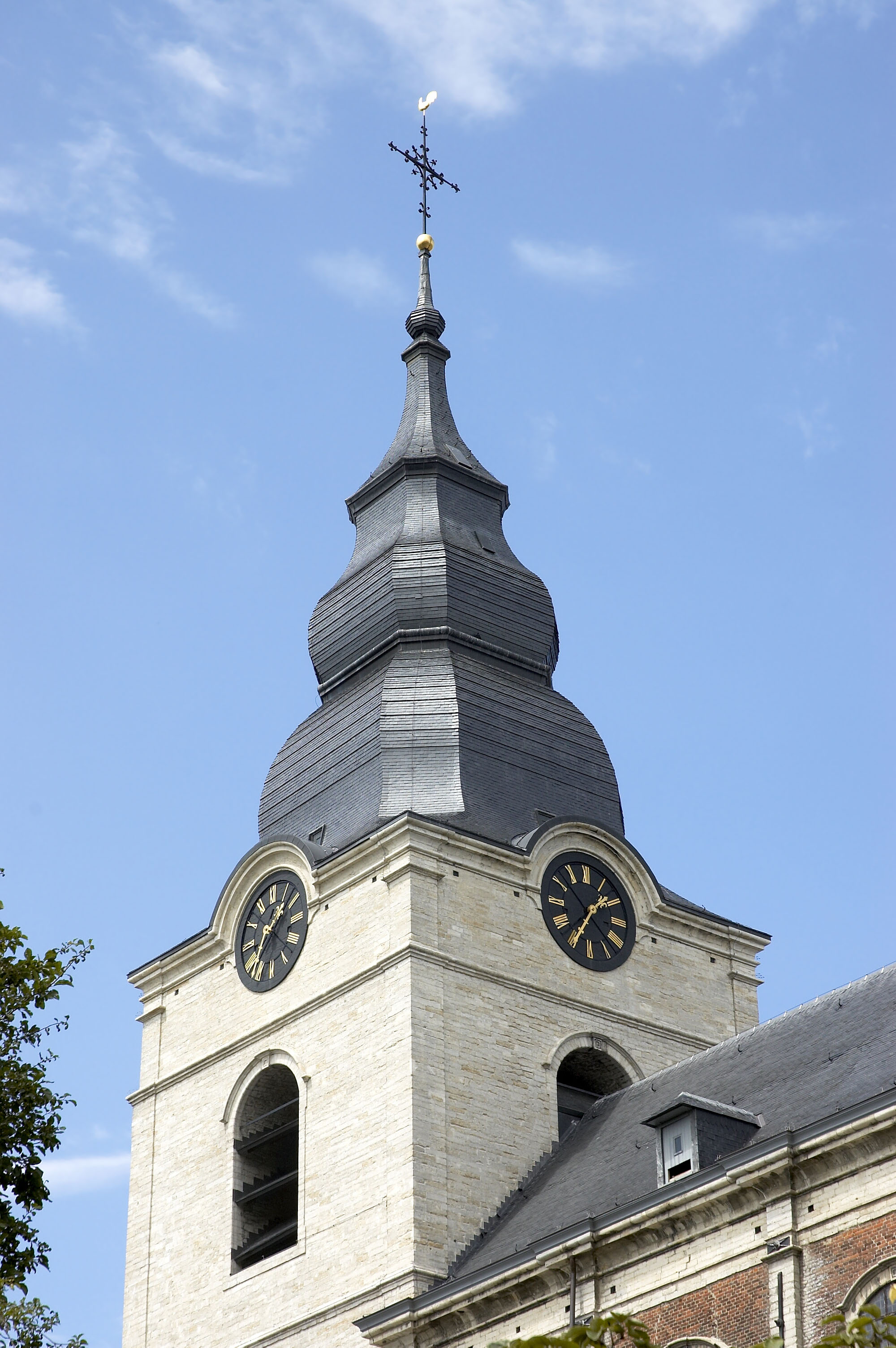 Tower with clock of the Saint-Gorgonius church